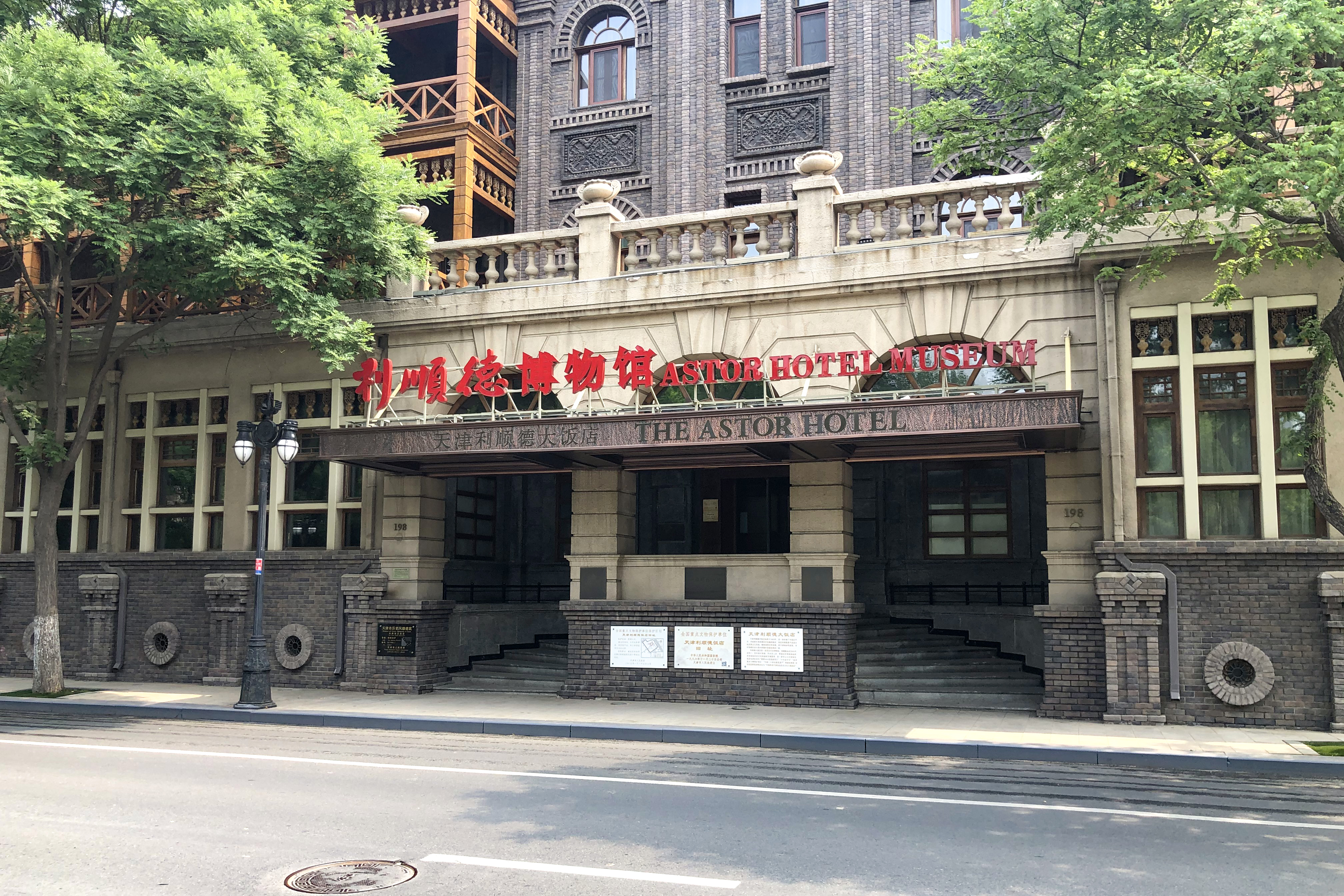 Yes, there's a museum in the old hotel.